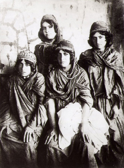 Kurdish Girls. One of Antoin Sevruguin's historical Iran photographs.